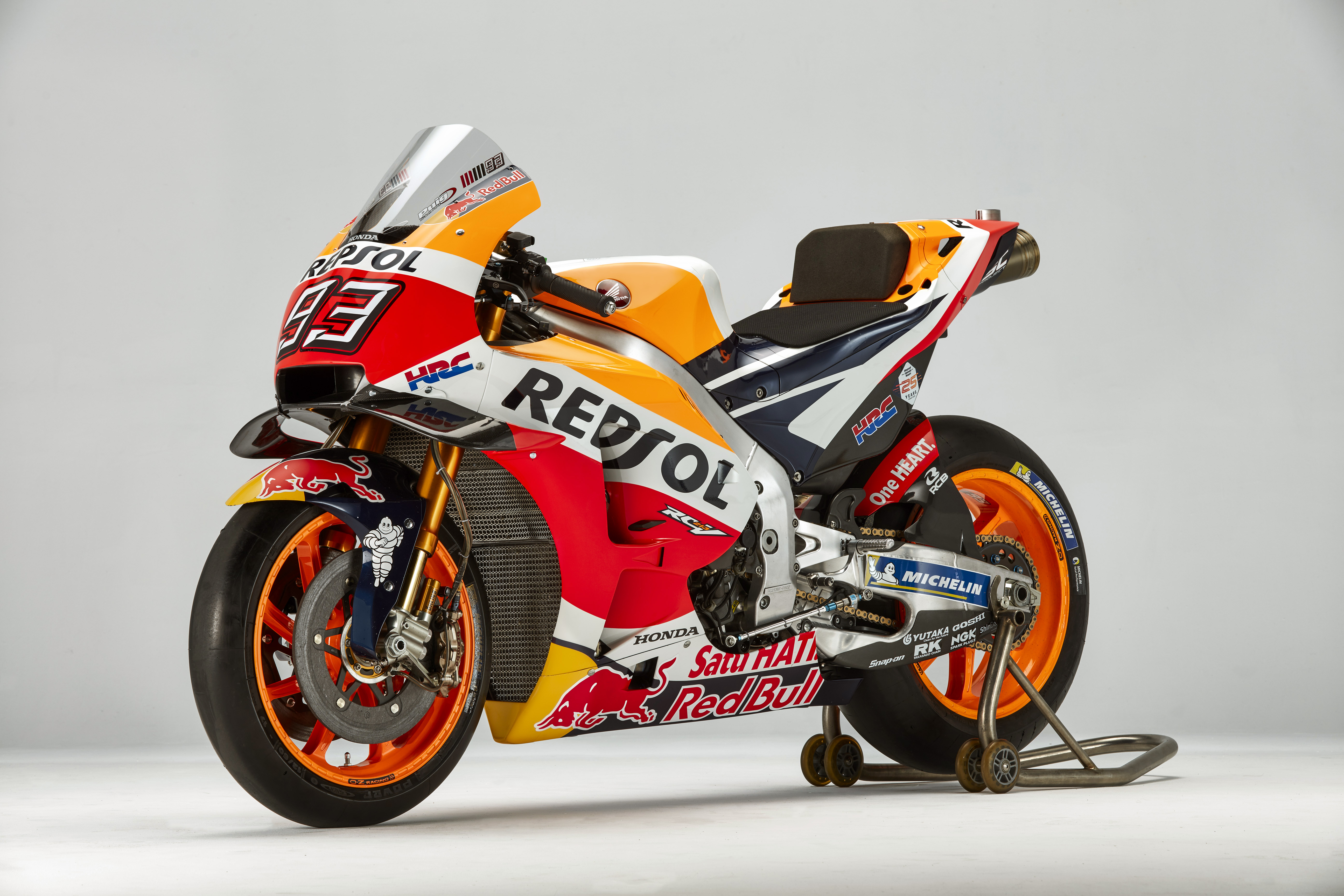 The 2019 Honda RC213V of Marc Márquez.